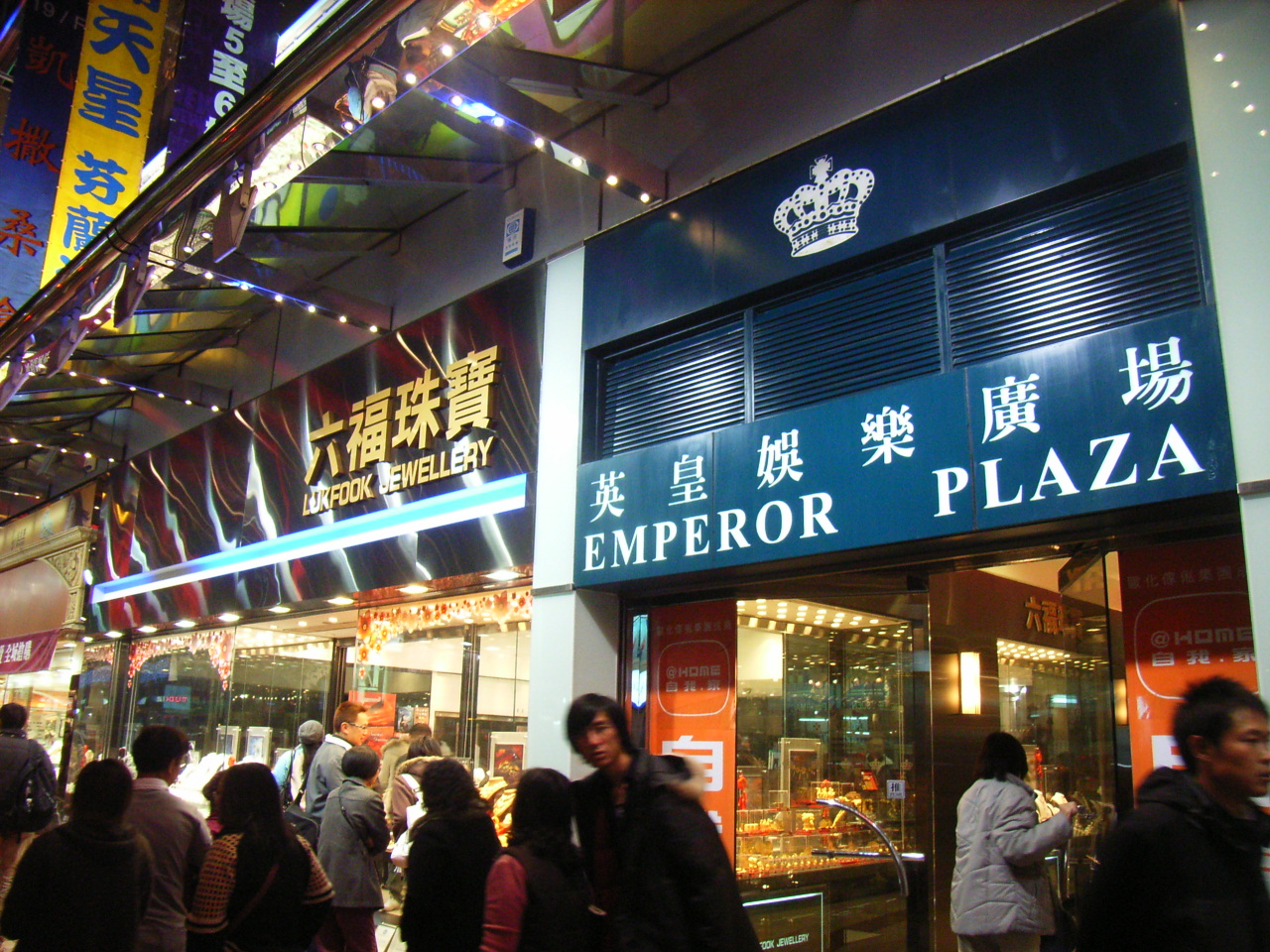 荃灣 眾安街商場: 英皇娛樂廣場